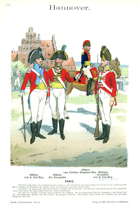 Hannover. 1802